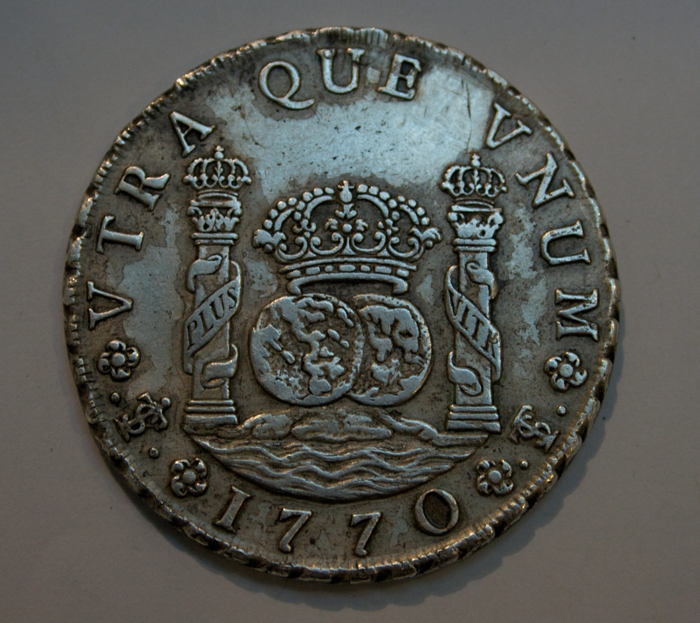 8 Reales (silver). Potosi, Bolivia (Spanish). 1770. In the British Museum.